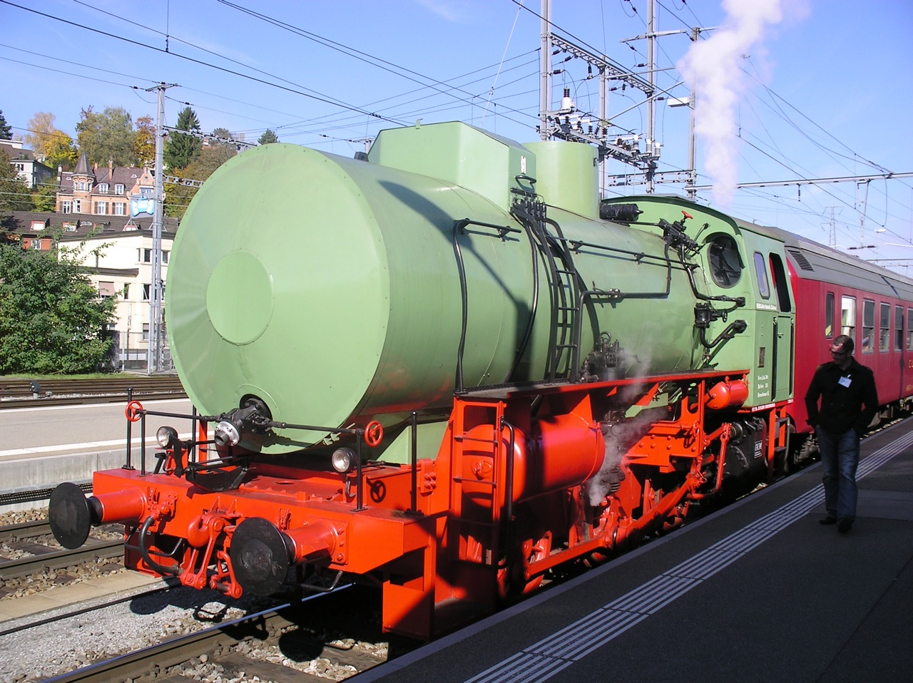 fireless steam engine 002, refurbished for use in industry by Dampflokomotive- und Maschinenfabrik DLM demonstrated in Schaffhausen, Switzerland